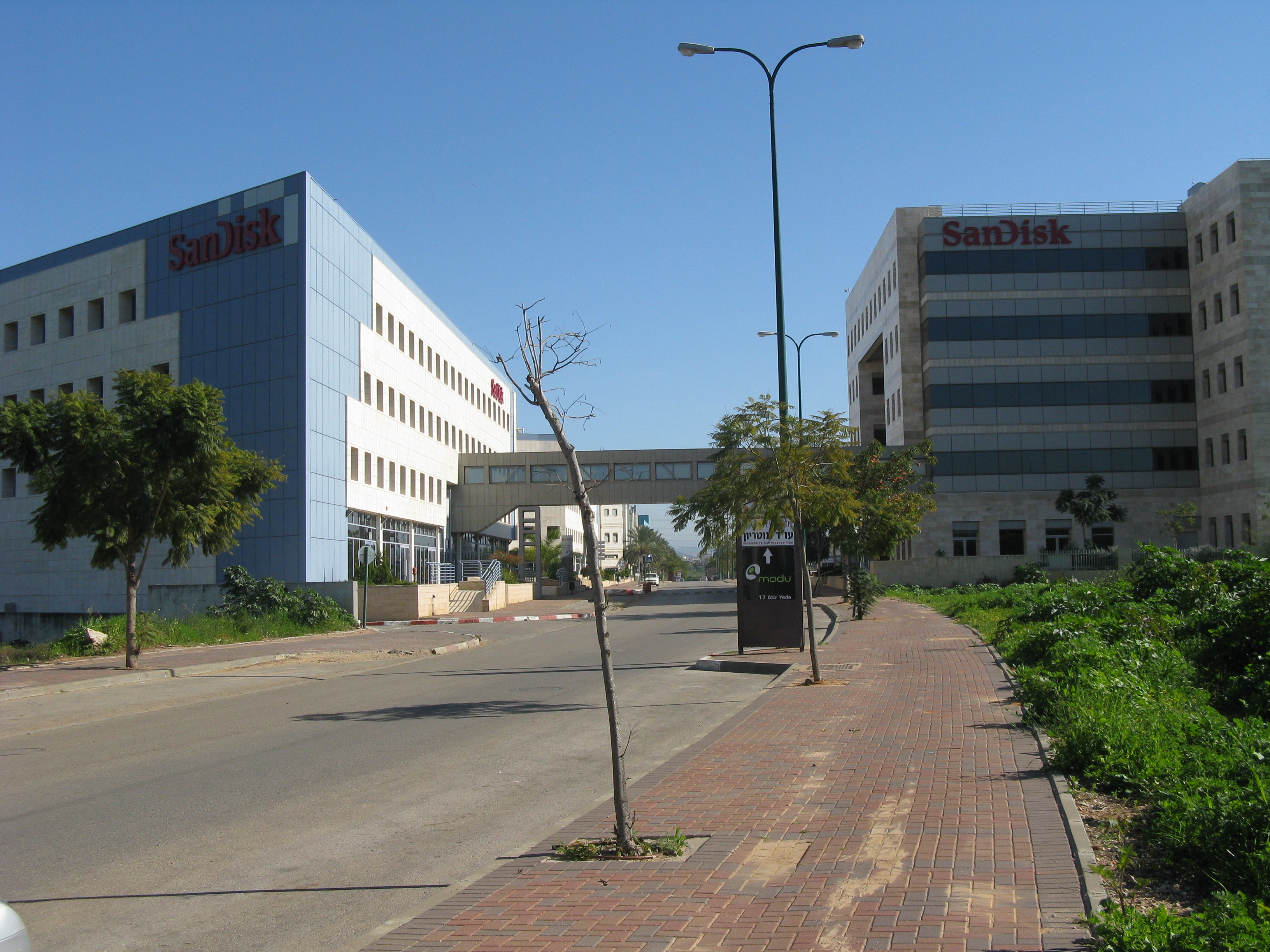 Science and technology in Israel - SanDisk factory in Kfar Saba